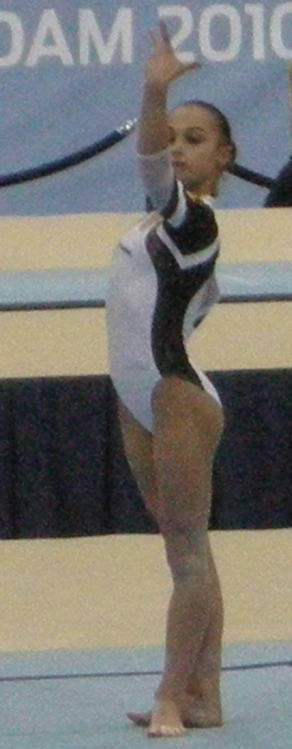 Raluca Haidu on floor at the 2010 World Artistic Gymnastics Championships in Rotterdam The Netherlands.